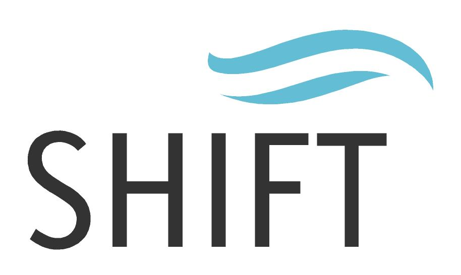 Logo of the shift project